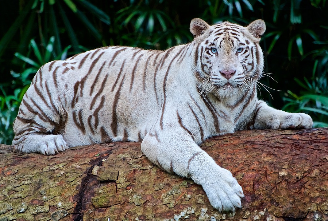 White Bengal tiger (Panthera tigris tigris)